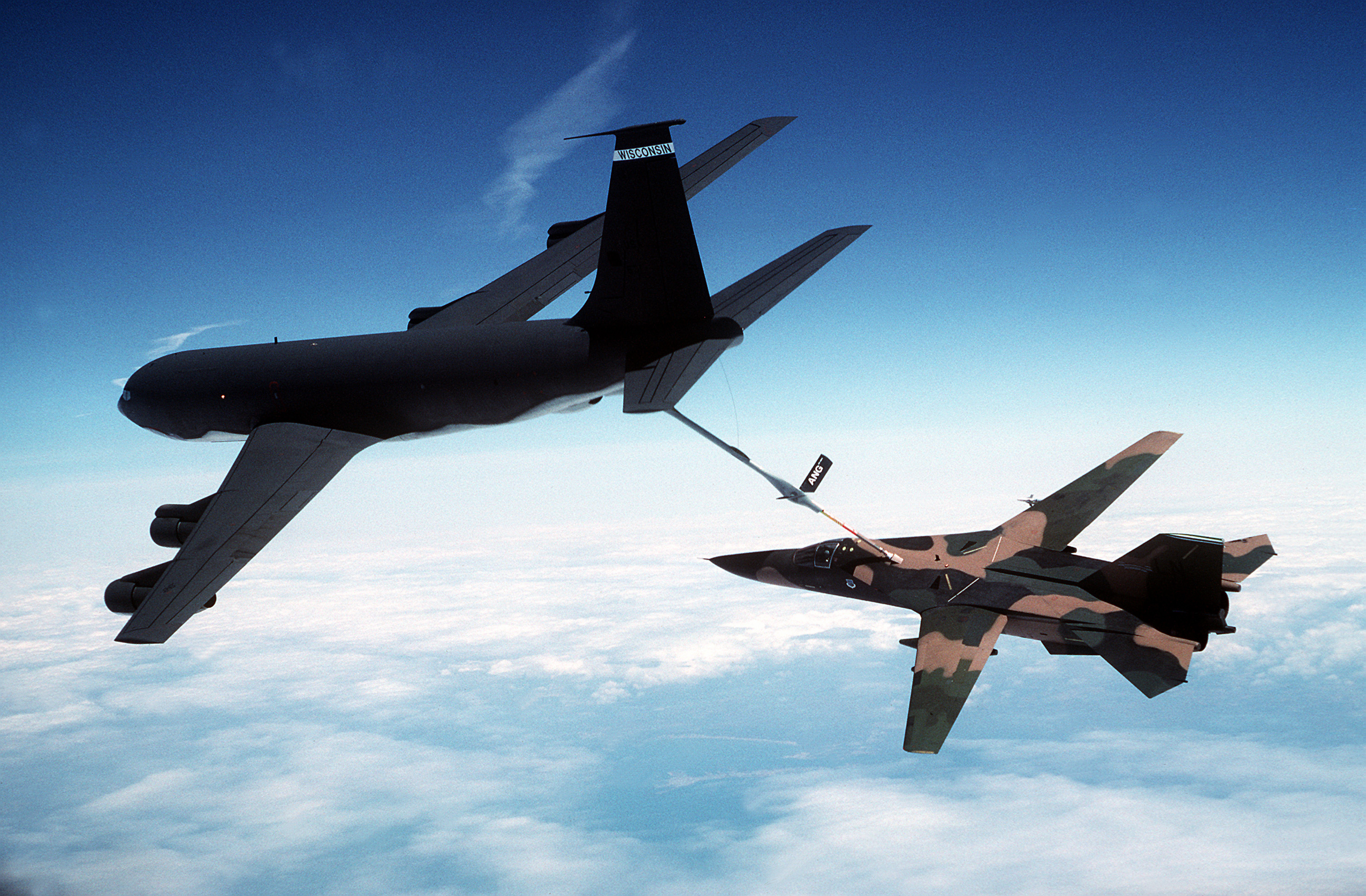 An air-to-air left side view of a 495th Tactical Fighter Squadron F-111F aircraft refueling from a KC-135E Stratotanker aircraft of the 128th Air Refueling Group, Wisconsin Air National Guard, during Open Gate '89. Open Gate is a Joint Chiefs of Staff/NATO exercise designed to simulate air and sea power tactics required to keep the Straits of Gibraltar open during a crisis.